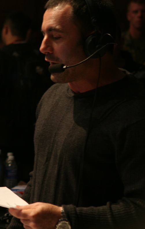 Picture of Joe Rogan during the UFC Ultimate Fight Night 7 broadcast. Taken by a marine during the course of their official duties, so in the public domian. This is cropped from the original photo.